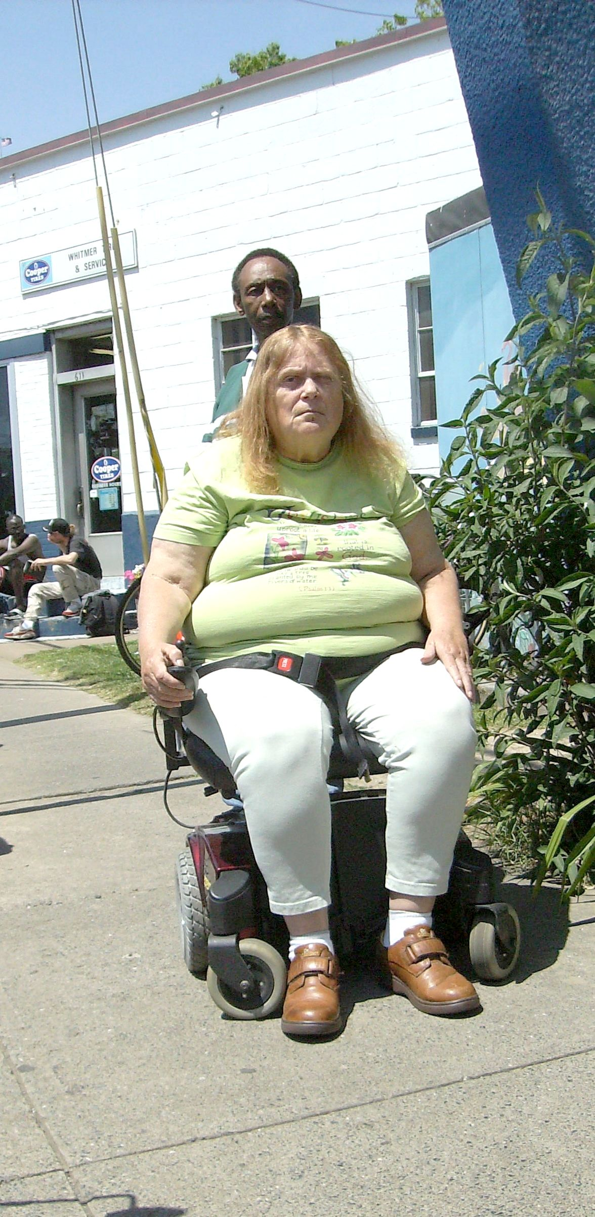 Woman in motorized wheelchair at Our Community Place soup kitchen held at Little Grill Collective in Harrisonburg, Virginia.